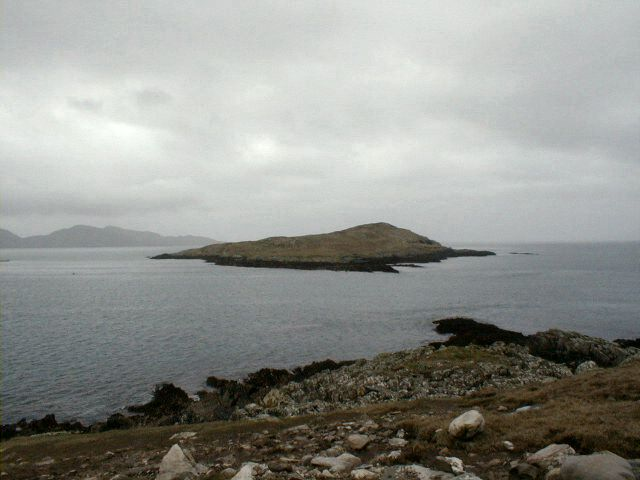 Kilcatherine Point Looking out from the rocky foreshore at Kilcatherine Point towards Inishfarnard.